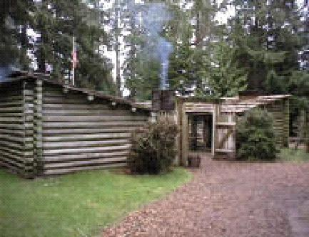 Fort Clatsop (reconstruction), the winter camp of Lewis and Clark, in the vicinity of Astoria, Oregon.